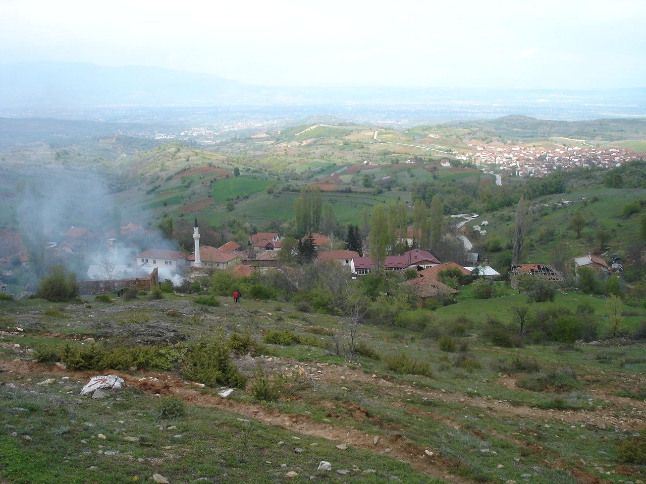 villages of Gorno and Dolno Kolichani, Macedonia